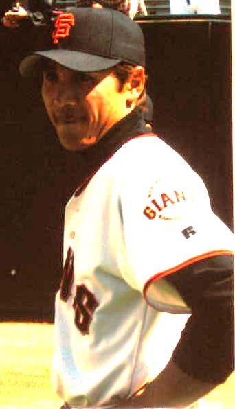 self created photograph by BurmaShaver 00:43, 18 May 2006 . . BurmaShaver . . 342×596 (29,145 bytes)